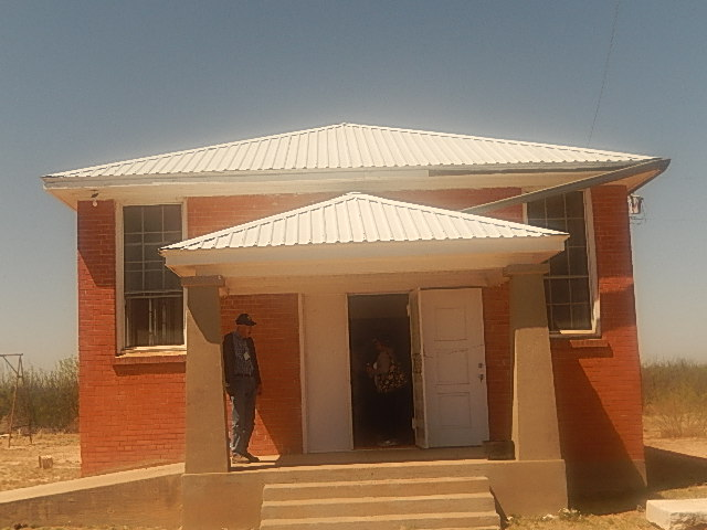 I took photo of former schoolhouse in Girvin, TX, now a community meeting hall, with Nikon camera.